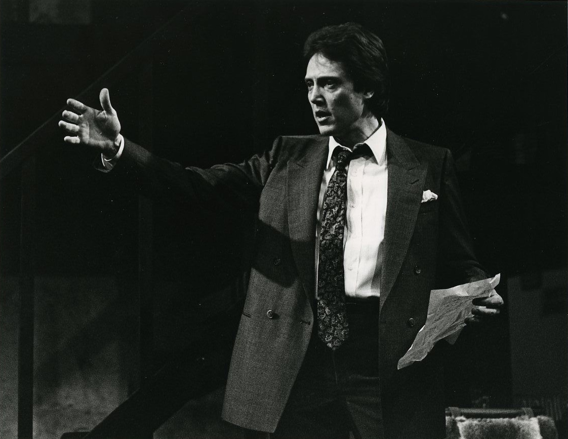 Publicity photo of Christopher Walken in stage play, Hurlyburly.